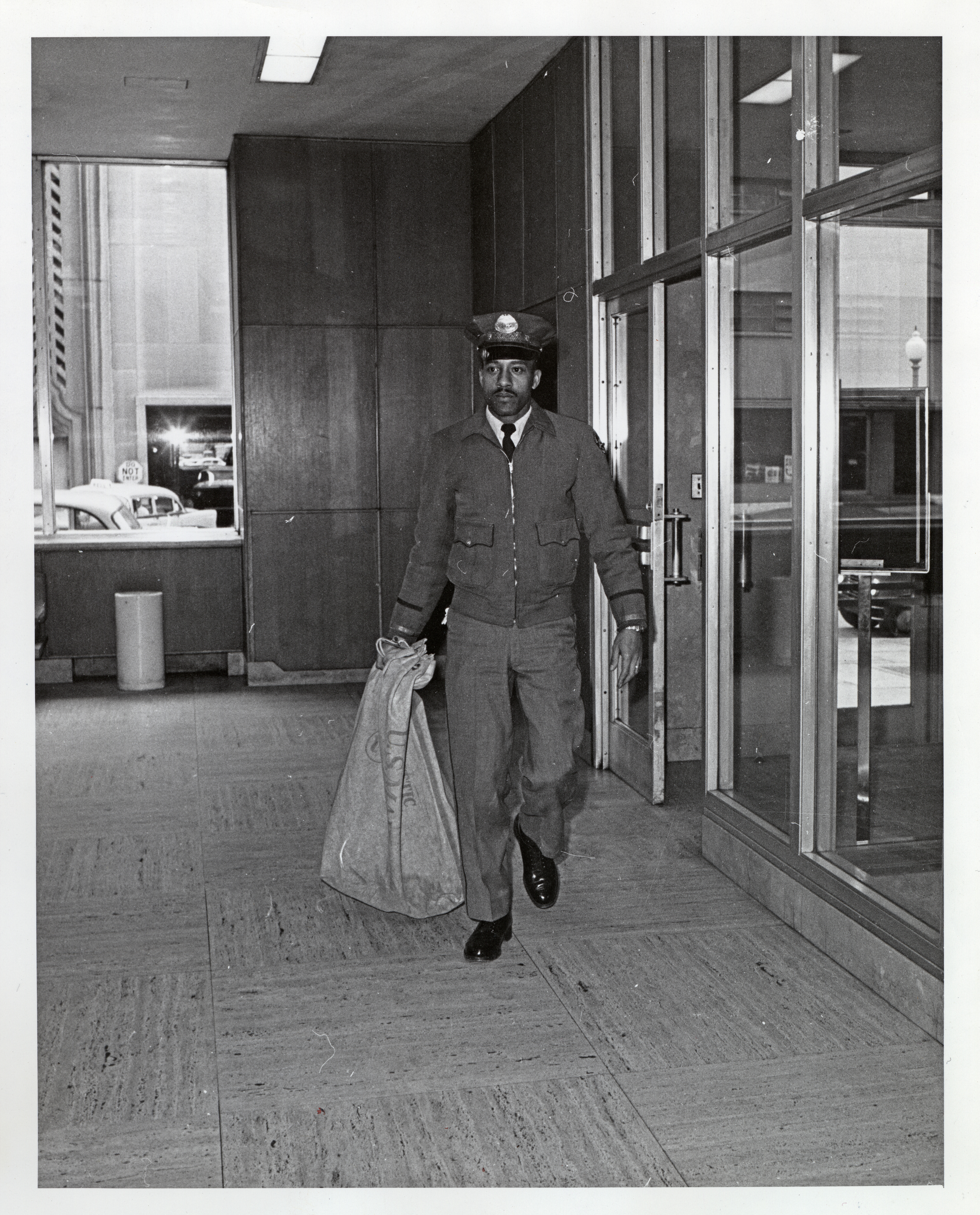 Description: This image is of a letter carrier with his mail sack inside an unidentified post office. Creator/Photographer: Unidentified photographer Medium: Black and white photographic print Culture: American Geography: USA Date: 1965 Collection: U.S. Postal Employees Persistent URL: Repository: Accession number: A#2006-21